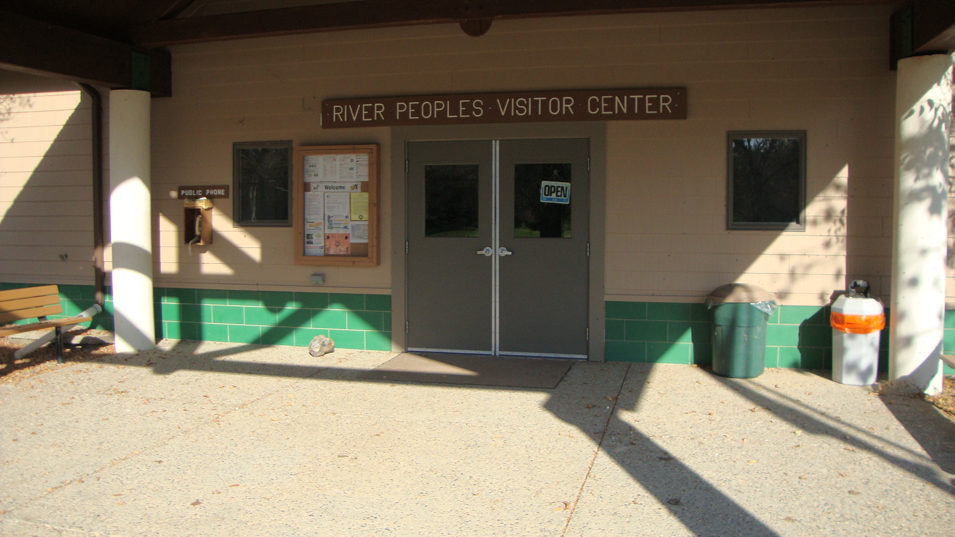 Cross Ranch State Park, North Dakota